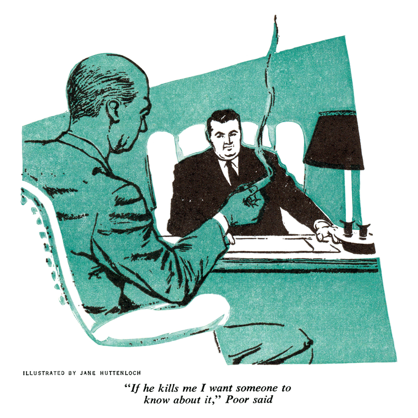 Illustration for "Murder on Tuesday," a Nero Wolfe story by Rex Stout that first appeared in The American Magazine and was subsequently titled "Instead of Evidence" when collected in book form